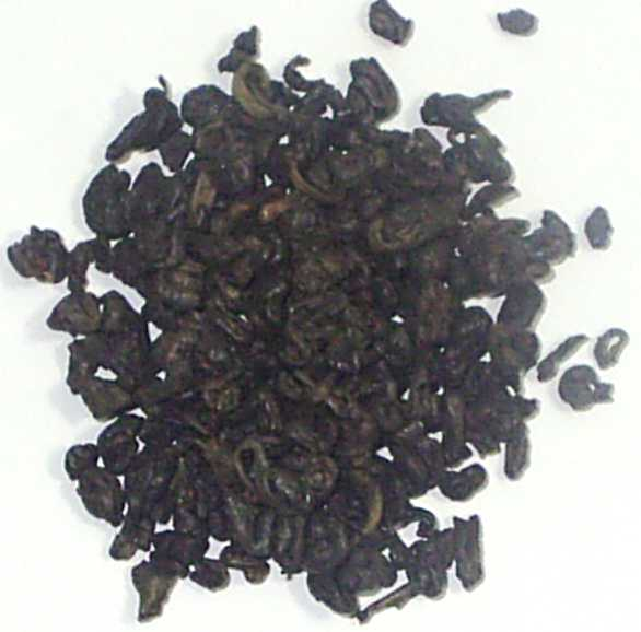 A pile of Chinese Gunpowder tea. The little pills are about half a centimetre long.